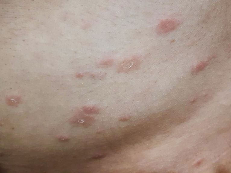 Scaly pityriasis